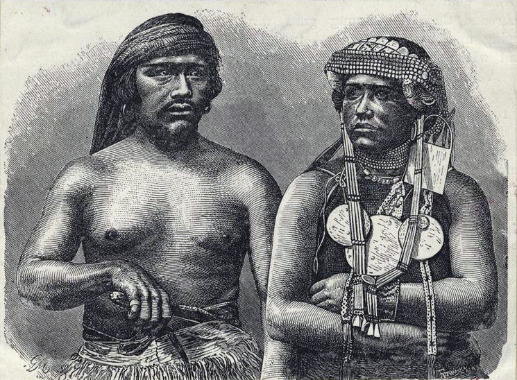 Araucanian (Mapuche) husband and wife.